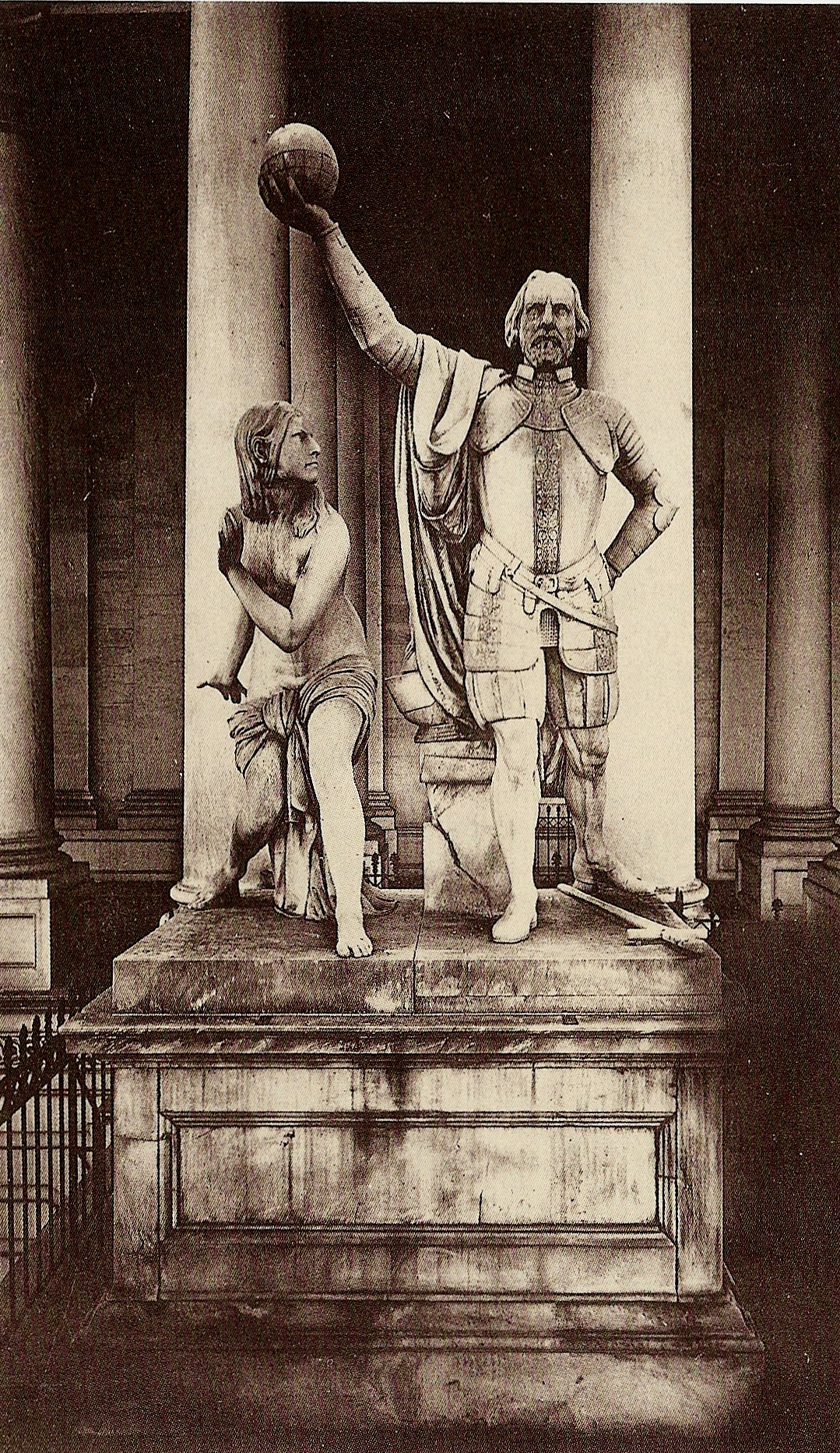 Discovery of America statue on the steps of the U.S. Capitol building